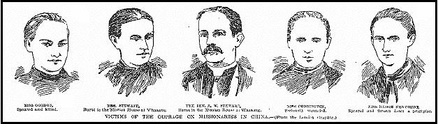 Five main victims in Kucheng Massacre.